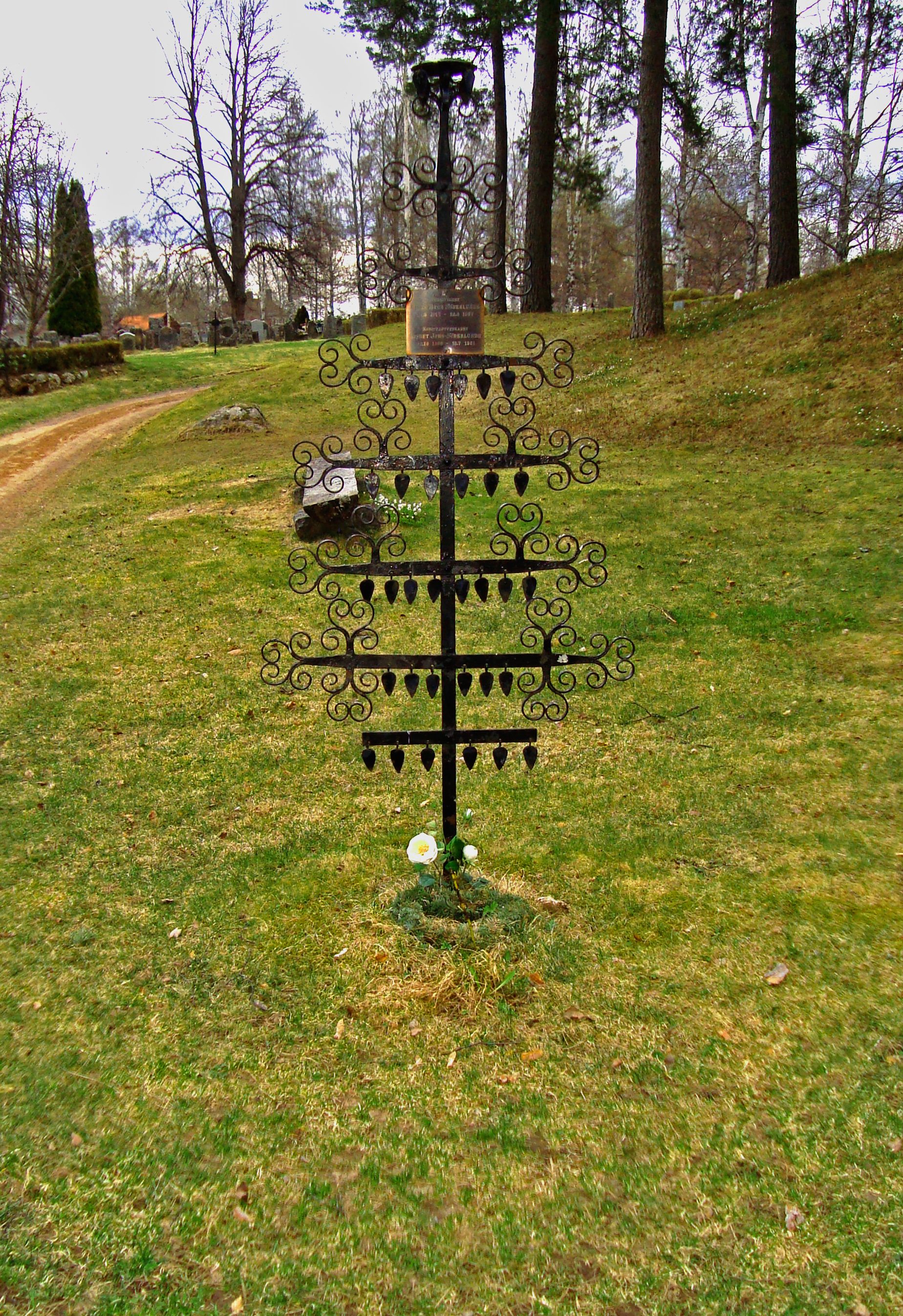 Grave of composer Lille Bror Söderlundh and textile artist/potter Lisbet Jobs-Söderlundh at the graveyard of Leksands kyrka.